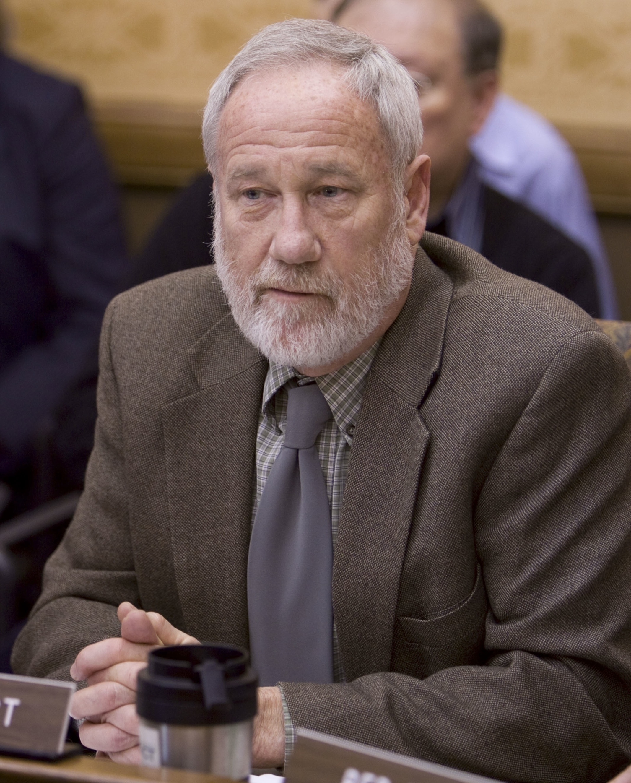 Former Wisconsin State Assemblyman Chuck Benedict.